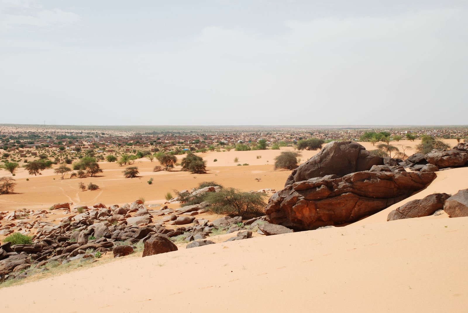 Tidjikja, Mauritania, town from hill in northeast